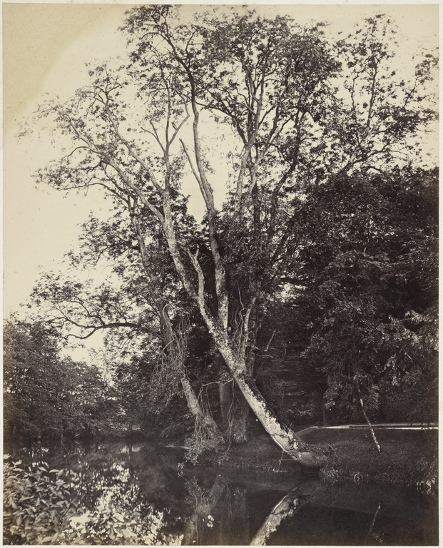 Study, Near Warwick.; Samuel Buckle (British, 1808 - 1860), Print by Francis Frith (English, 1822 - 1898); England; negative about 1855; print about 1865; Albumen silver print; 20.2 x 16.2 cm (7 15/16 x 6 3/8 in.); 84.XP.703.8